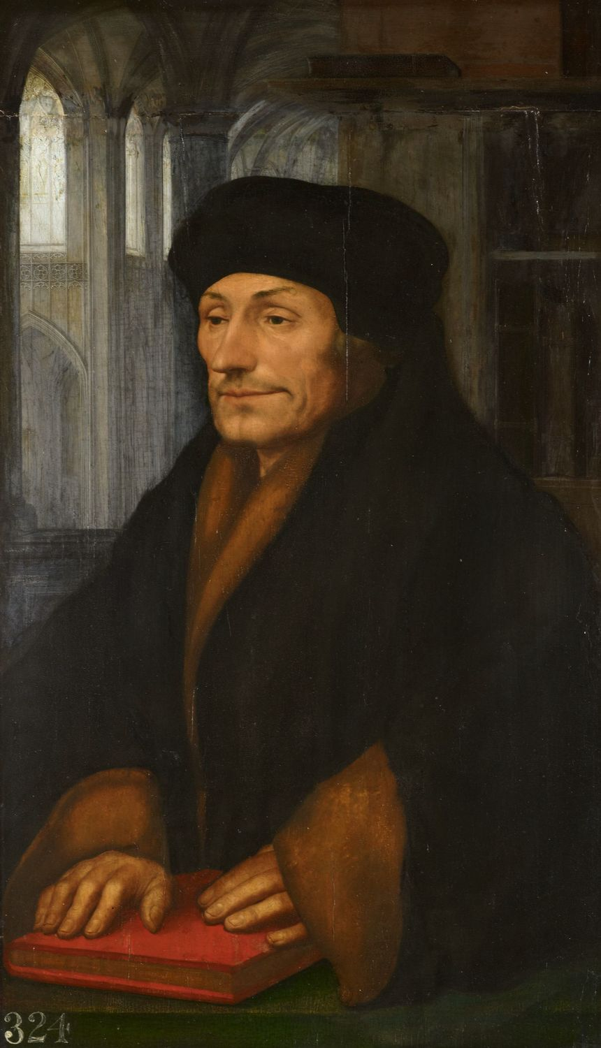 The famous scholar and theologian Desiderius Erasmus (1466/1469–1536) required a large number of portraits of himself to send to his correspondents and admirers throughout Europe. Hans Holbein the Younger painted him several times in Basel, and Holbein's portraits were then often copied. It is not always clear which versions were by Holbein himself, which by his workshop, and which by independent copyists. This version of the type with the closed book has a church background probably added in about 1629 by Hendrik van Steenwijk II. background added c. 1629